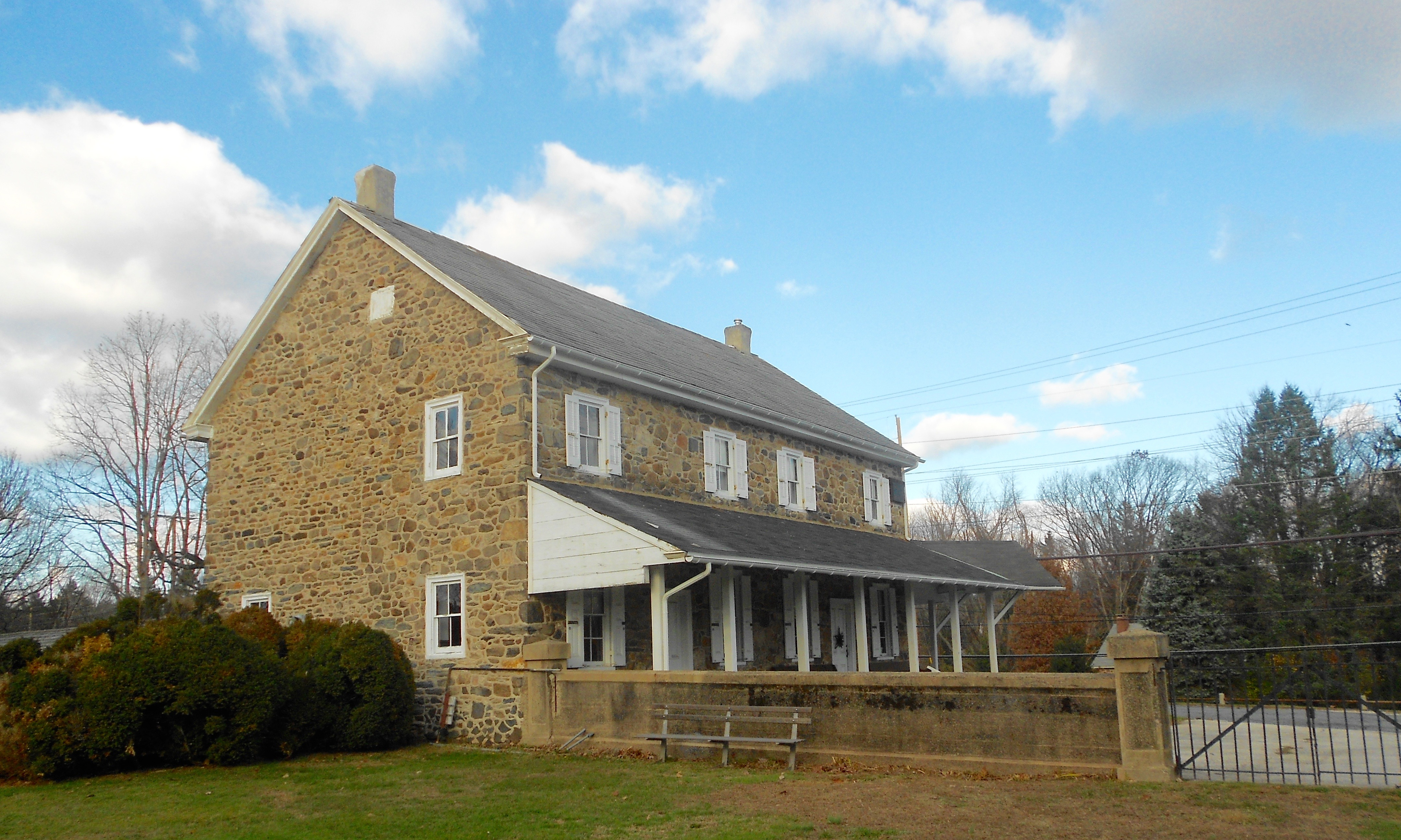 Newtown Square Meeting House on PA 252 in Newtown Square (Newtown Township, Delaware County), Pennsylvania. Built 1711 as a Friends (Quaker) meetinghouse. Still in the same use. Viewed from the SW